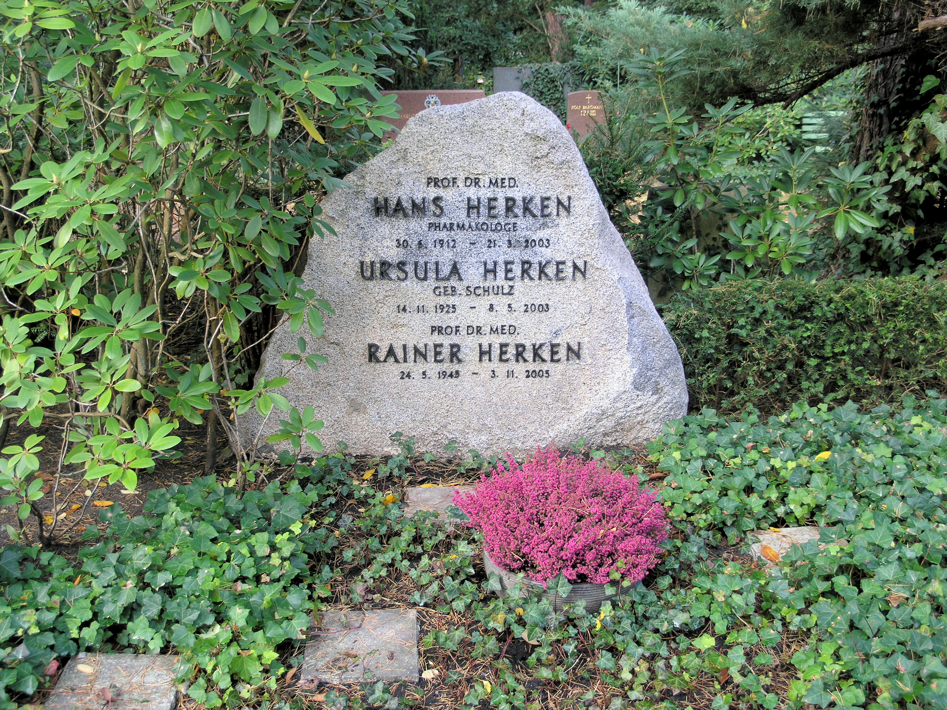 Graves, Hans Herken, Hüttenweg 47, Berlin-Dahlem, Germany Koordinate:52°27′20″N 13°15′49″E / 52.45556°N 13.26361°E